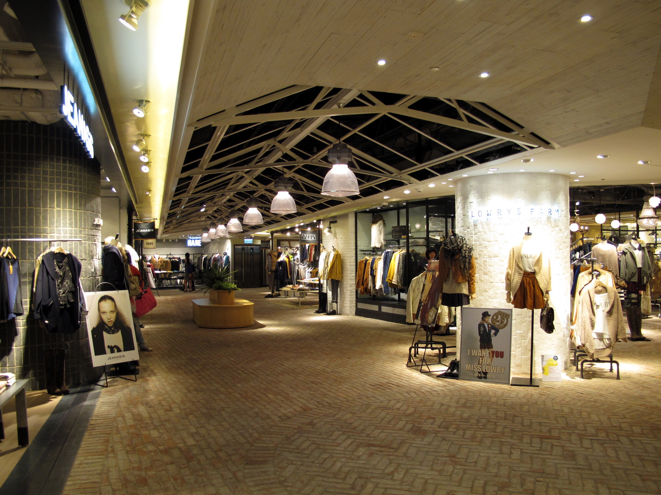 mira mall basement shops